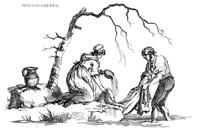 "Man and woman washing linen in a brook", from William Henry Pyne's Microcosm, 1806. Shows female and male lower-class clothing in 1806 England.